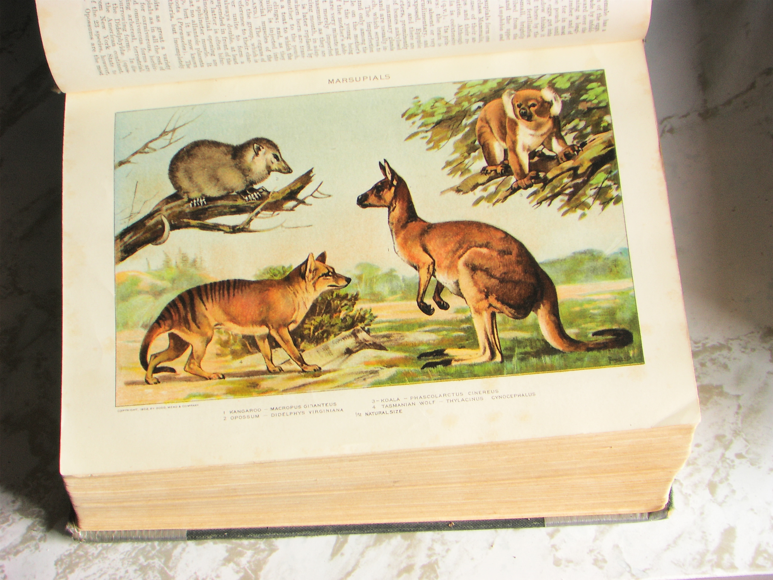 Marsupials